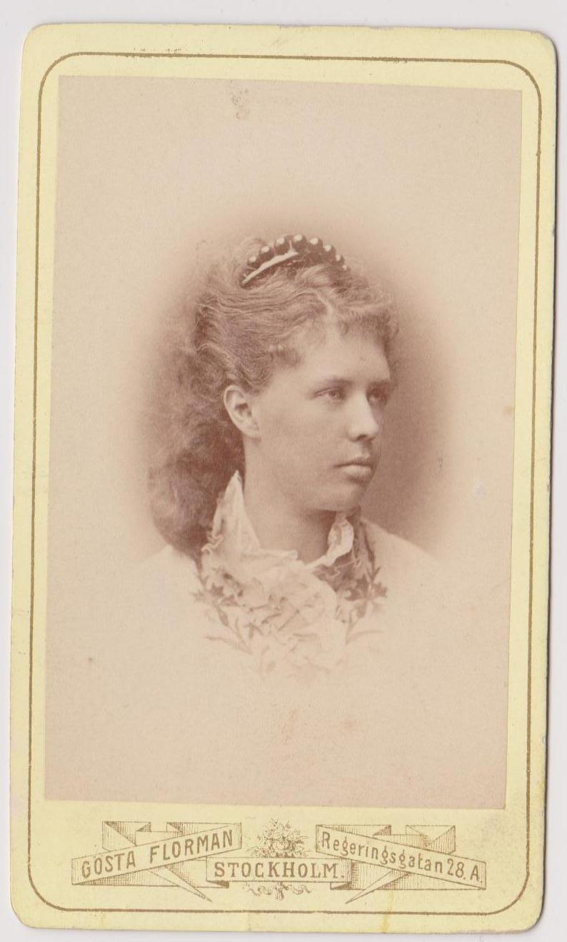 Photo of Swedish author Anne Charlotte Leffler (or Edgren). Dated 1876 i writing om Verso.